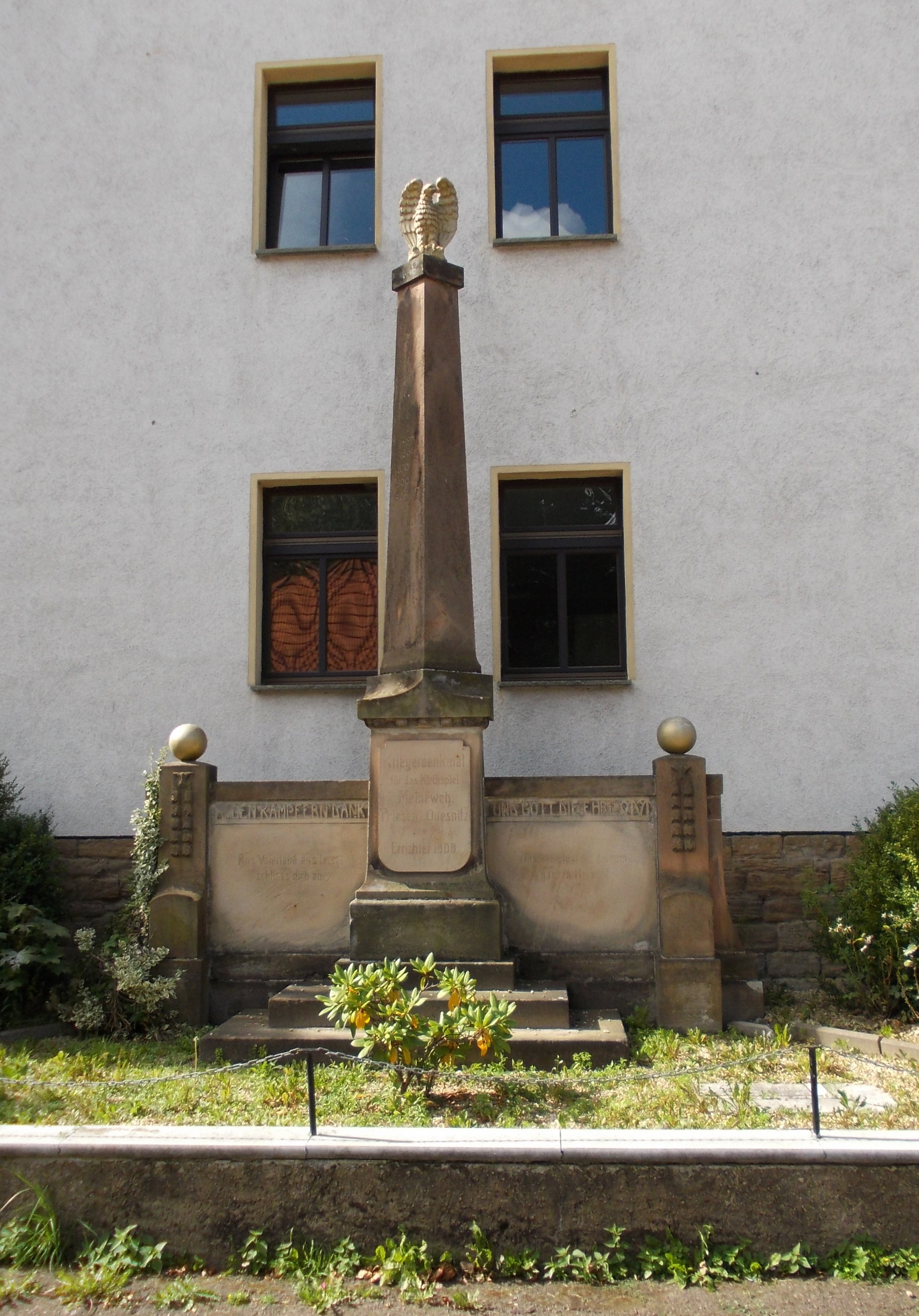 War memorial from 1908 in Meineweh (district of Burgenlandkreis, Saxony-Anhalt)